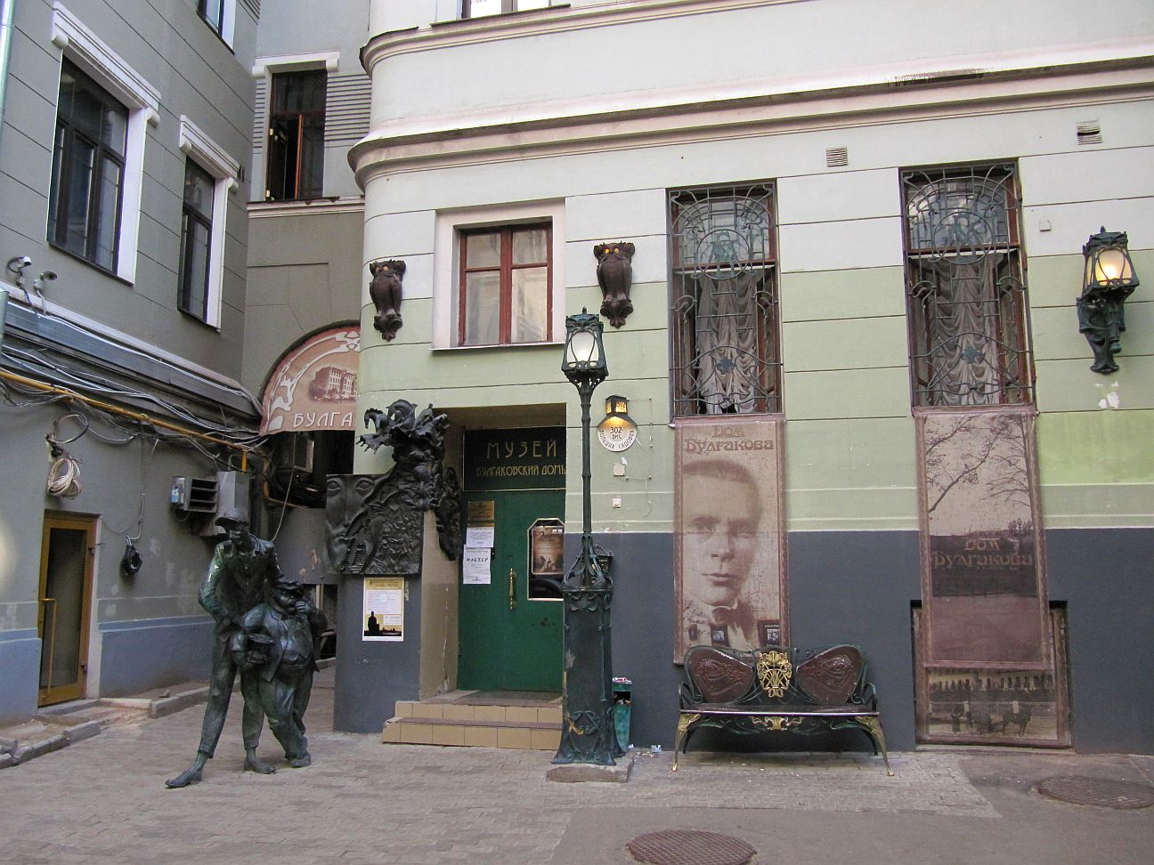 Courtyard of Bulgakov House